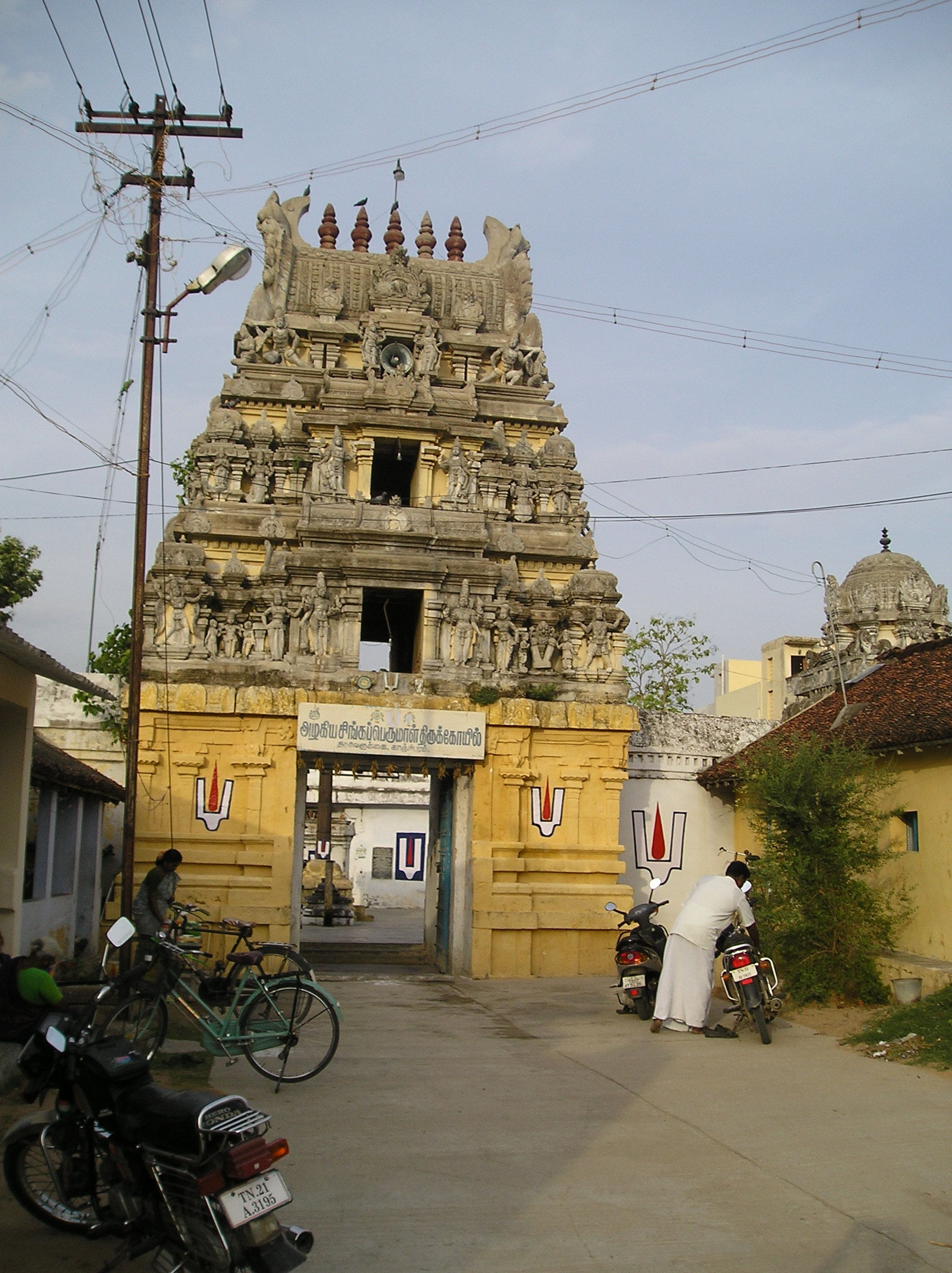 Kanchipuram Temples